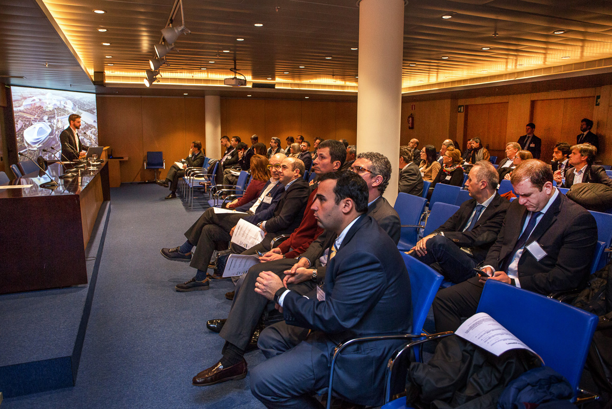 Vidarte speaking at Barcelona's Stock Exchange, 2018.